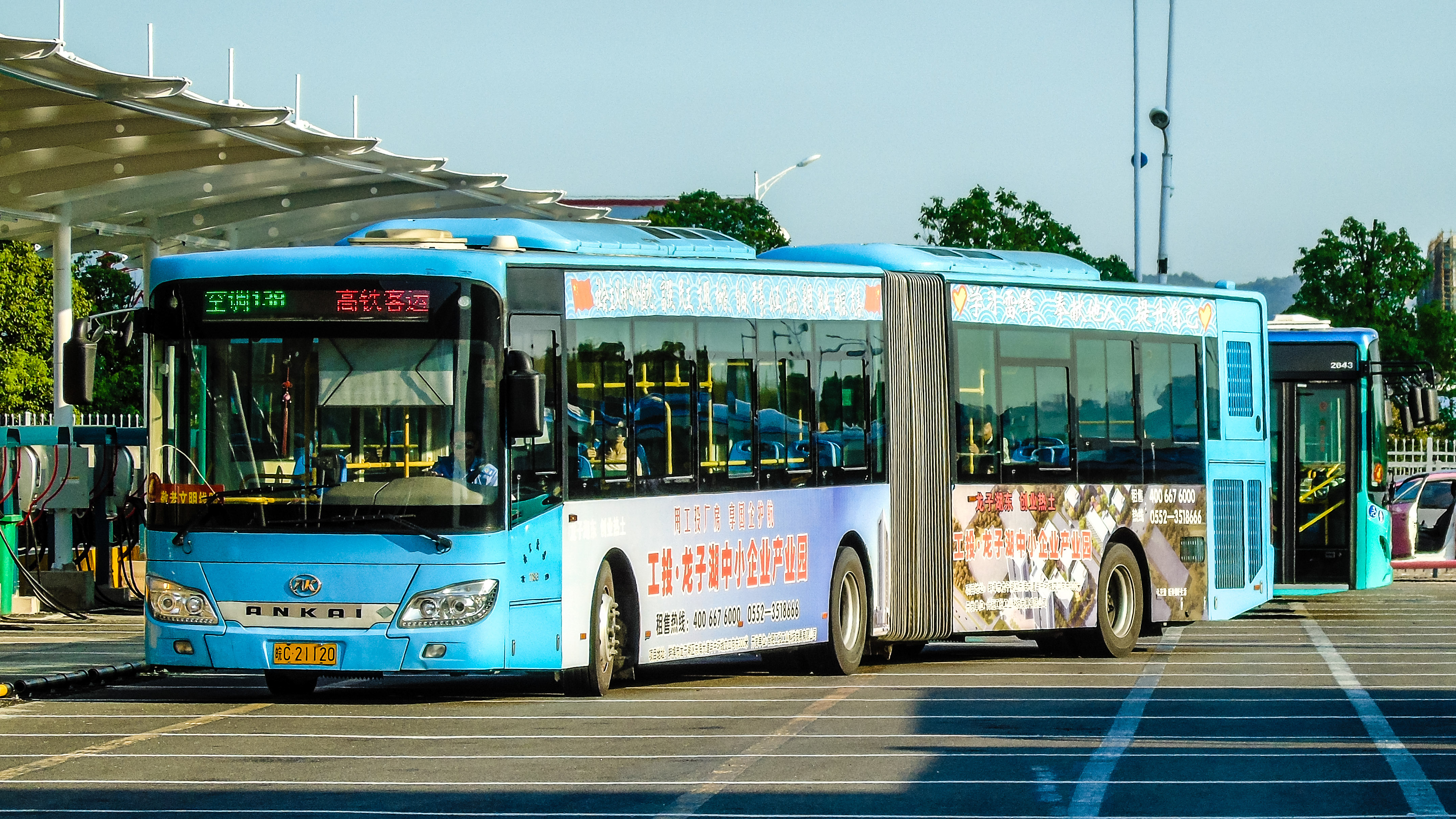 Bengbu Bus No.138 at Bengbunan Railway Station 2